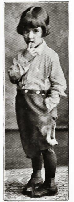 Child Actor May Giraci